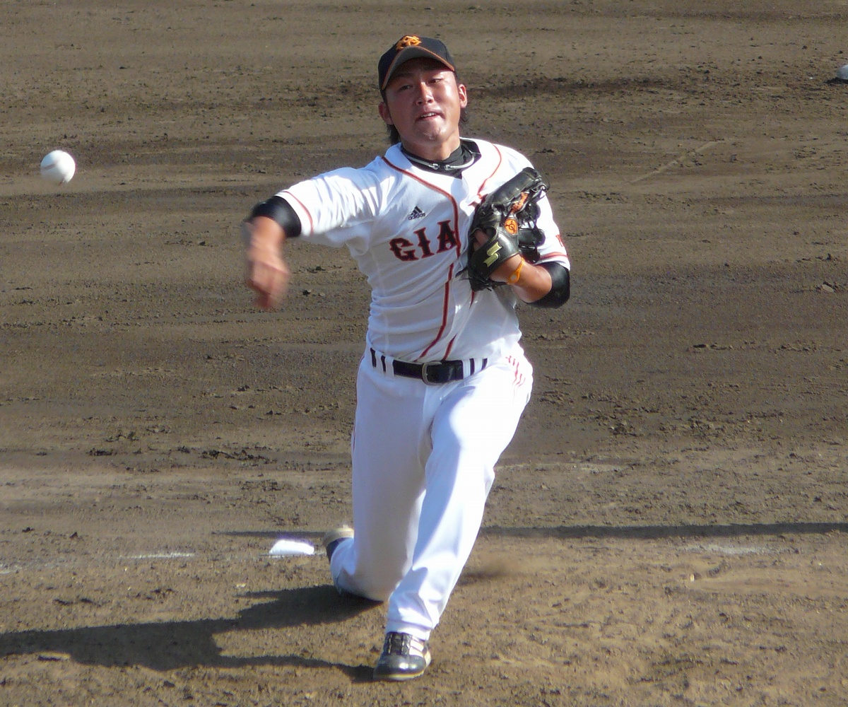 YG-Naoki-Kanda20100828